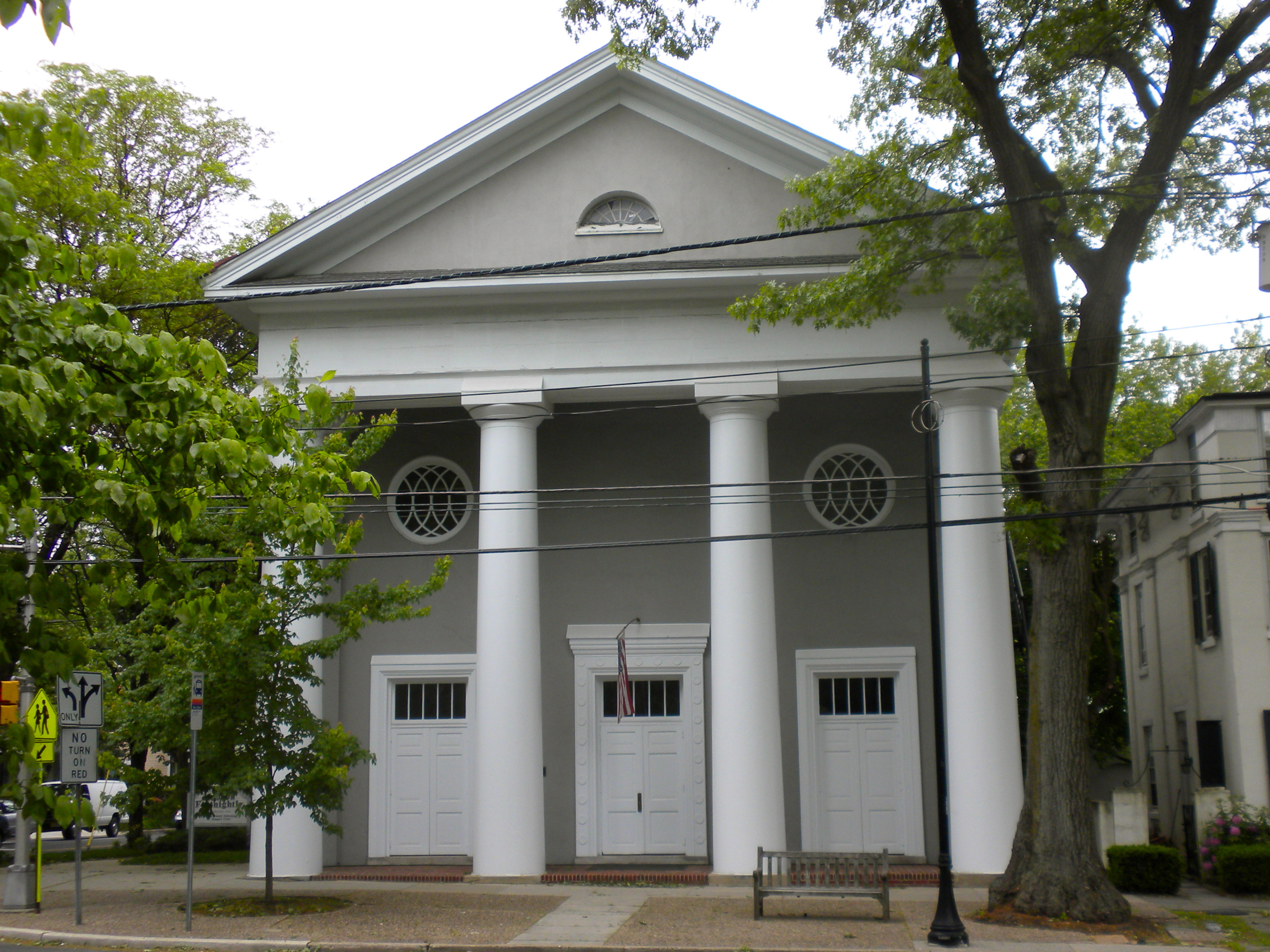 Haddon Fortnightly Club House on NRHP since October 26, 1972. At 301 King's Hwy. east, Haddonfield, Camden County, New Jersey